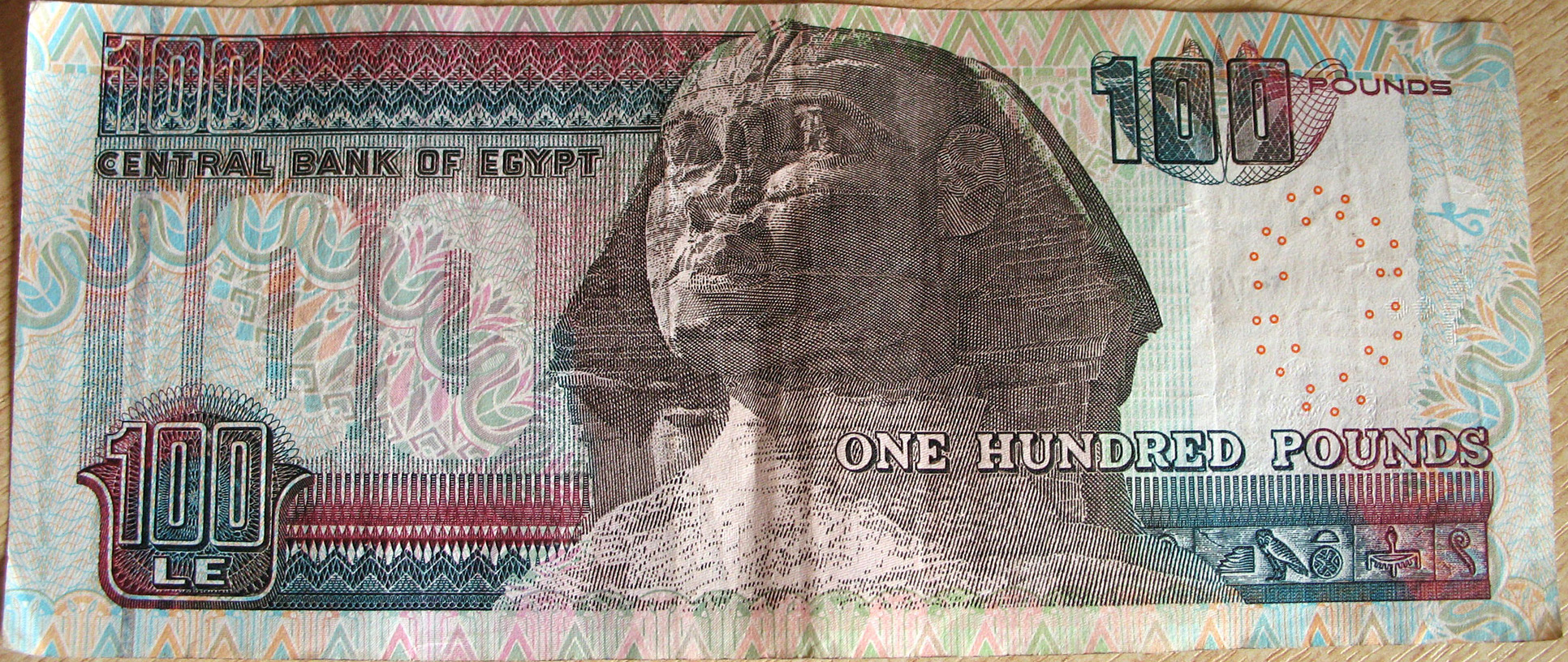 100 Egyptian pounds